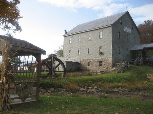 The historic Burnt Cabins Gristmill (built 1840) — in the town of Burnt Cabins. Located on Allen's Valley Rd., within Dublin Township, Fulton County, Pennsylvania. On the National Register of Historic Places listings in Fulton County since November 28, 1980.